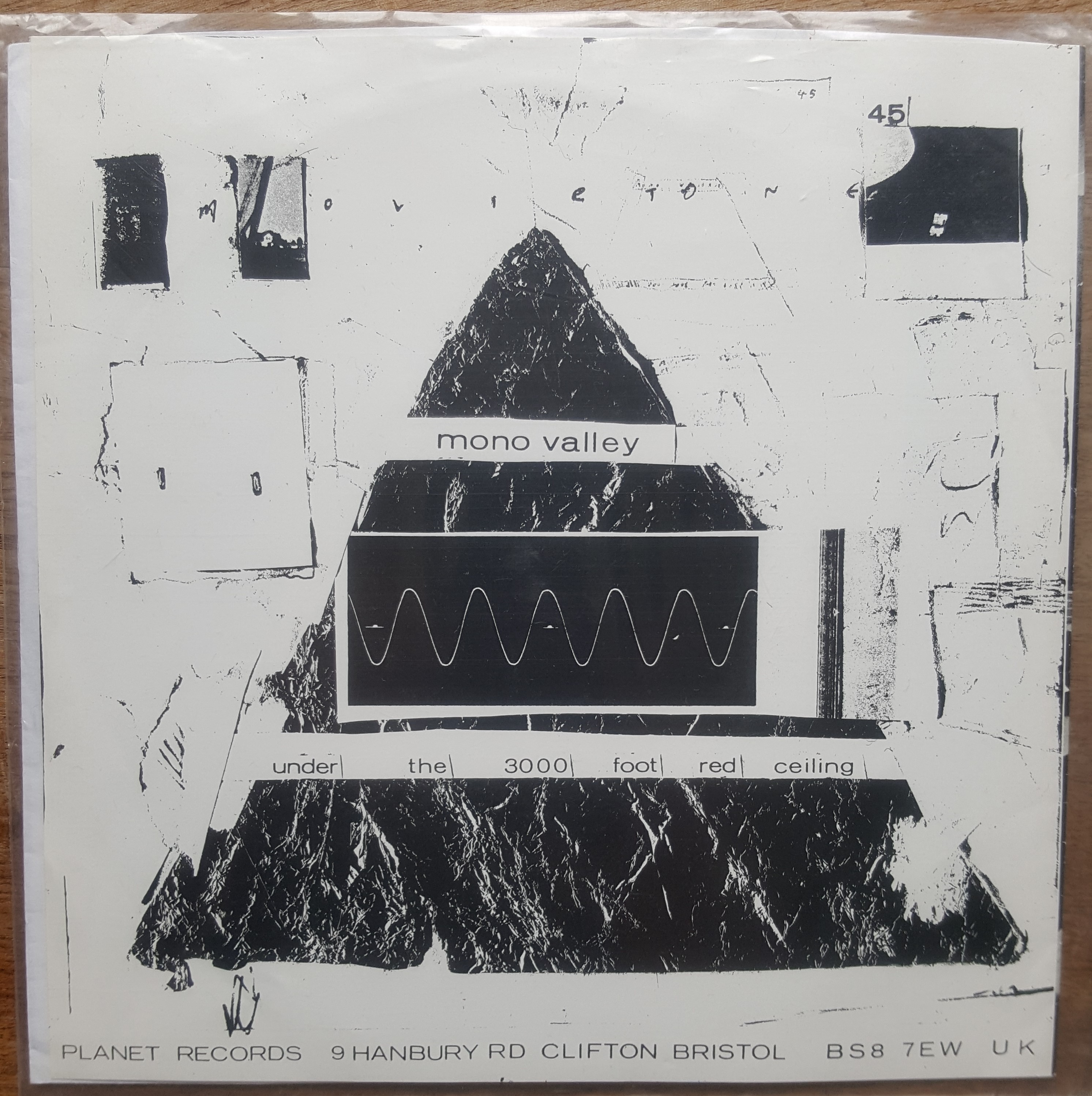 Mono Valley 7 inch record (image of back cover), Planet Records, PUNK009, 1995